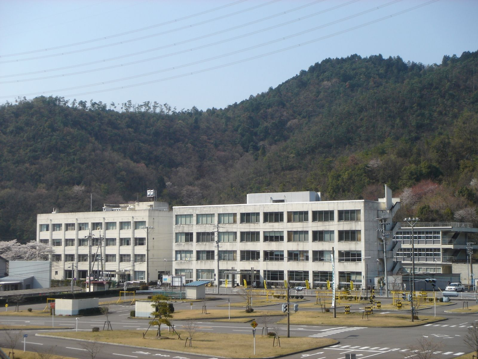 Gifu prefectural Driver's_License_Examination_Office(岐阜県自動車運転免許試験場岐阜試験場),Gifu,Gifu,Japan(岐阜県岐阜市)で撮影。